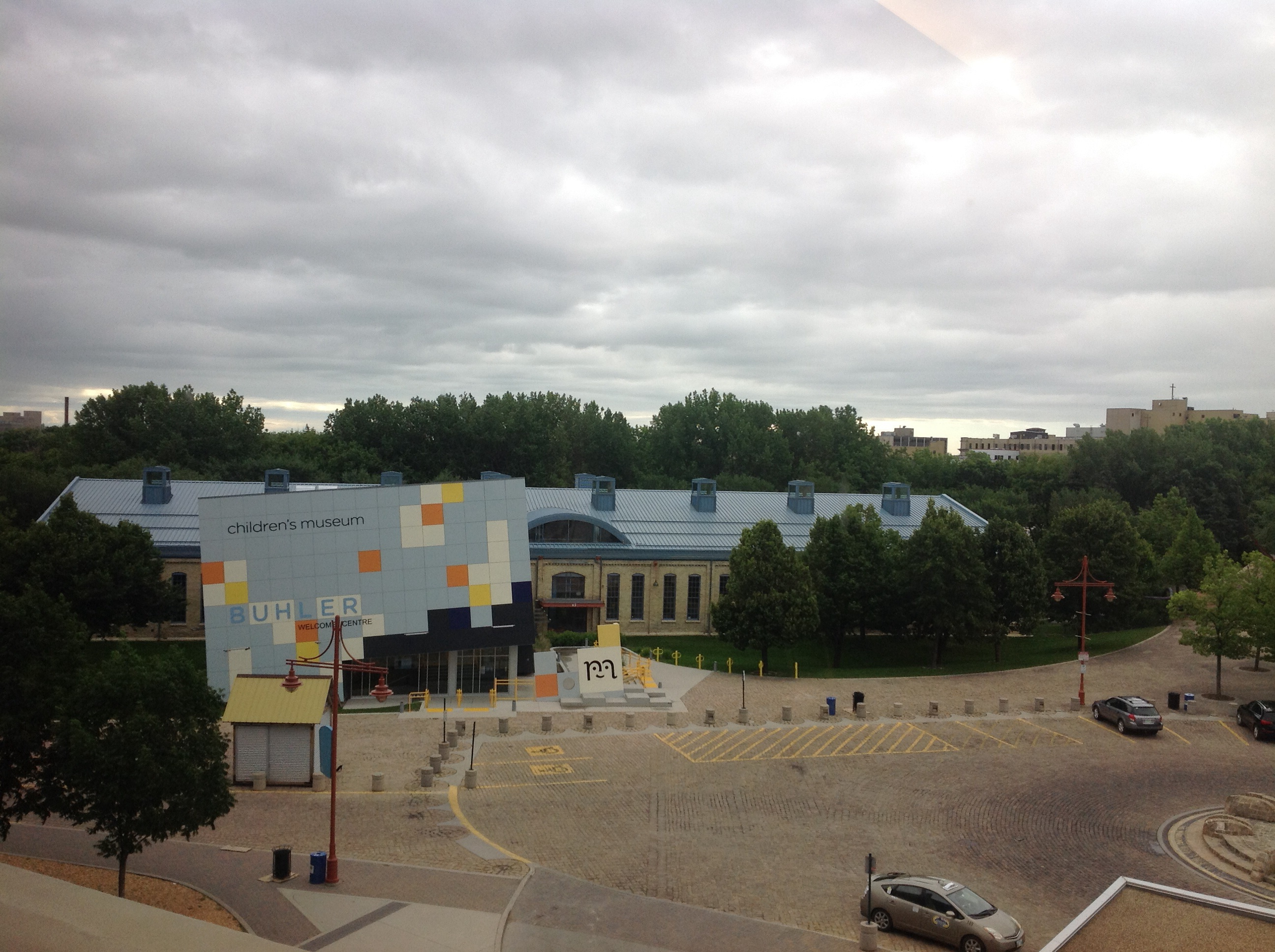 Childrens Museum Winnipeg, Manitoba, Canada Српски (ћирилица): Дечији музеј у Винипегу, Манитоба, Канада